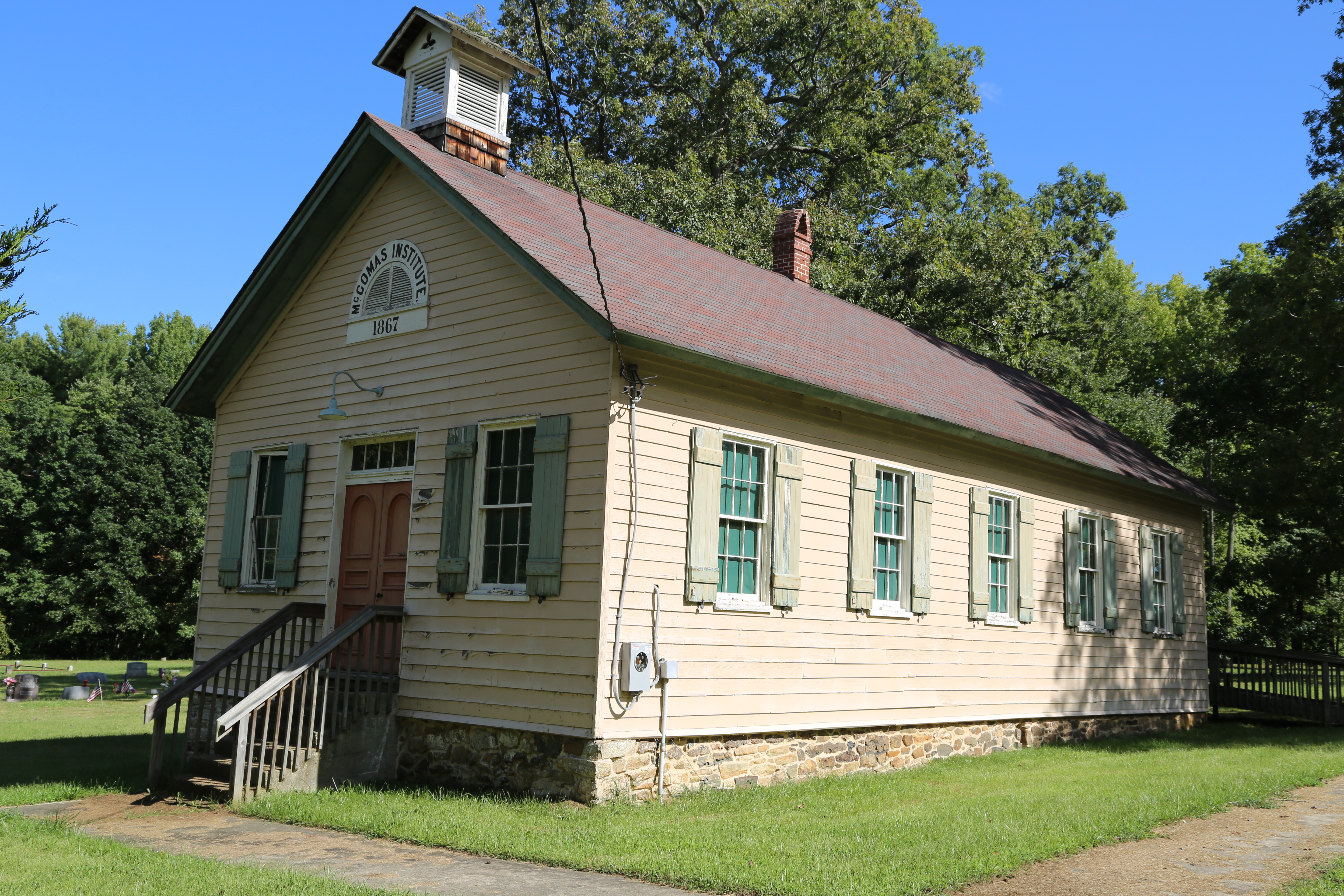 McComas Institute, North of Joppa on Singer Rd. Joppa